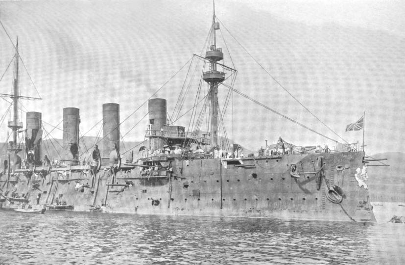 Right side forward damage suffered by the Russian armored cruiser Rossia during the Battle of Ulsan.